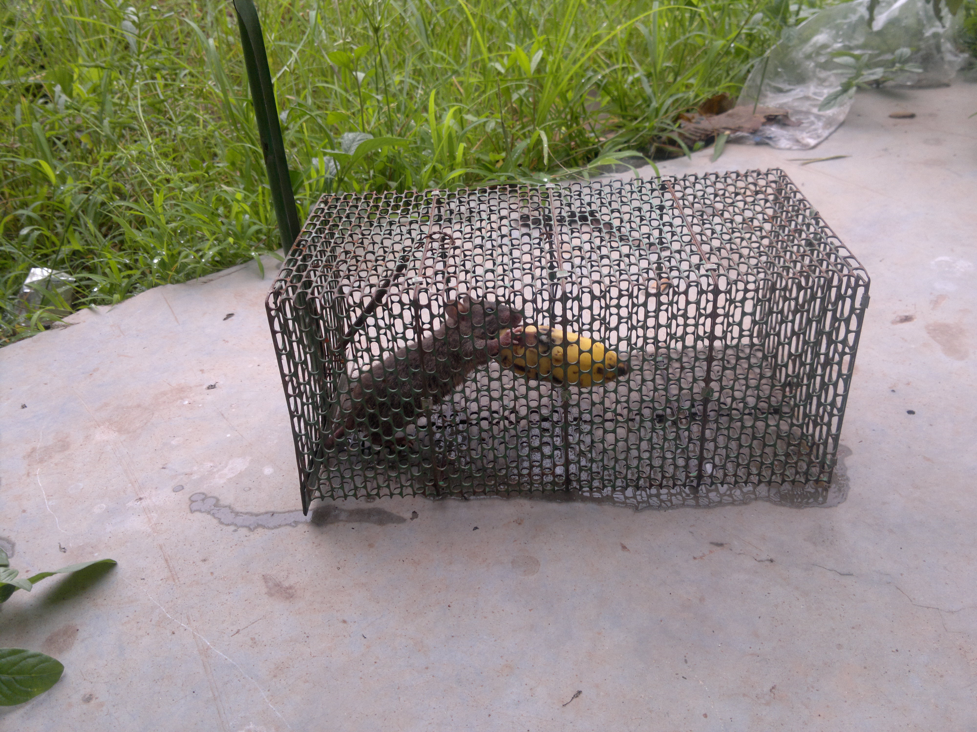 എലിപ്പെട്ടിയിൽ പെട്ട എലി